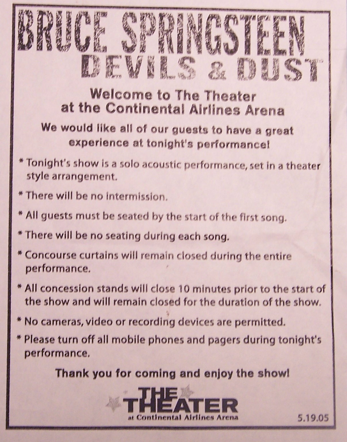 Springsteen 2005 Devils & Dust Tour audience handout.